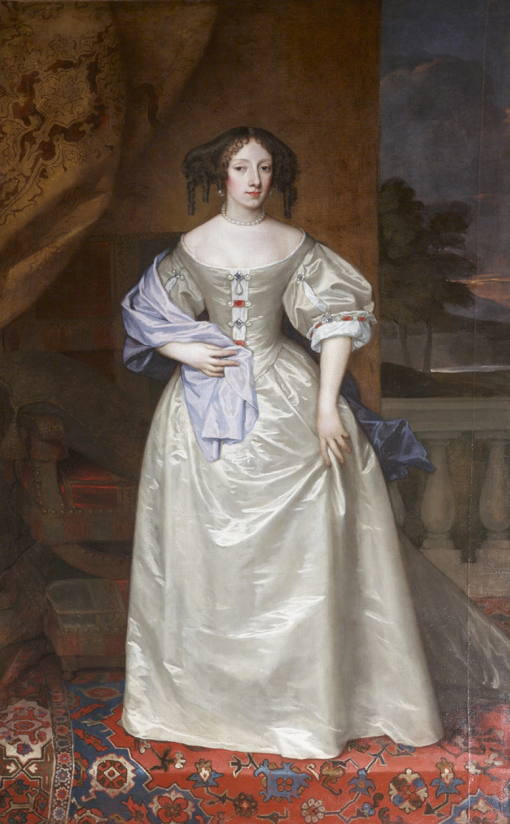 Posthumous portrait of Henriette d'Angleterre (Princess Henrietta (1644-1670), daughter of King Charles I of England). She was born in Bedford House, Exeter, the town house of the Duke of Bedford, in which her mother had been given refuge during the troubled time before her father's execution in 1649, and before her flight as an infant to France. This painting was presented by her brother King Charles II to the Corporation of the City of Exeter in recognition of her birth there. Collection of Exeter Guildhall, in the Council Chamber of which it is displayed, with inscribed explanatory gilt panel on lower frame.